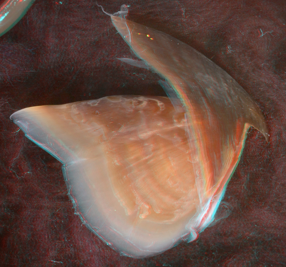 Upper beak of female Haliphron atlanticus (150 mm ML (estimate); 24 mm HL; 32 mm CL). Specimen found floating dead at surface in Hawaiian waters.